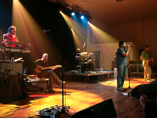 Antònia Font at a concert in Sueca, 2008. From left: Jaume Manresa, J.M. Oliver, Pere Debon, Pau Debon och Joan Roca.